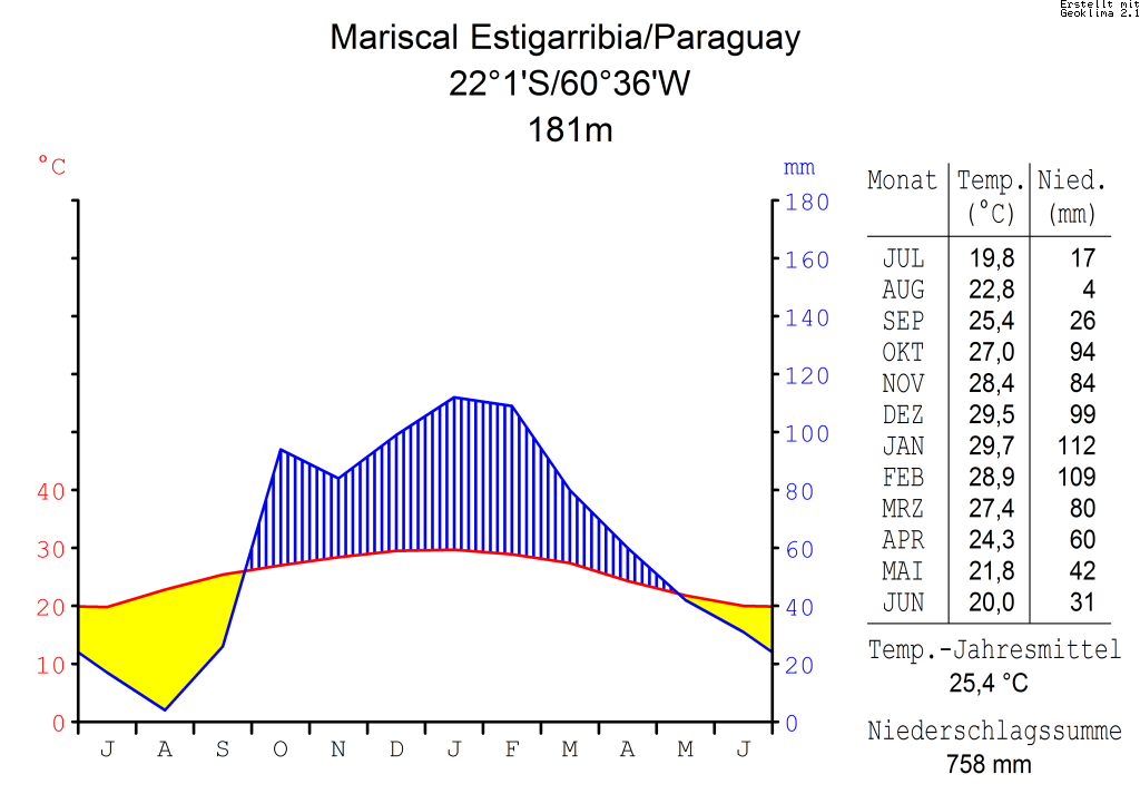 climate chart in the format by Walther and Lieth, metric, °Celsius and millimeters, made with Geoklima 2.1